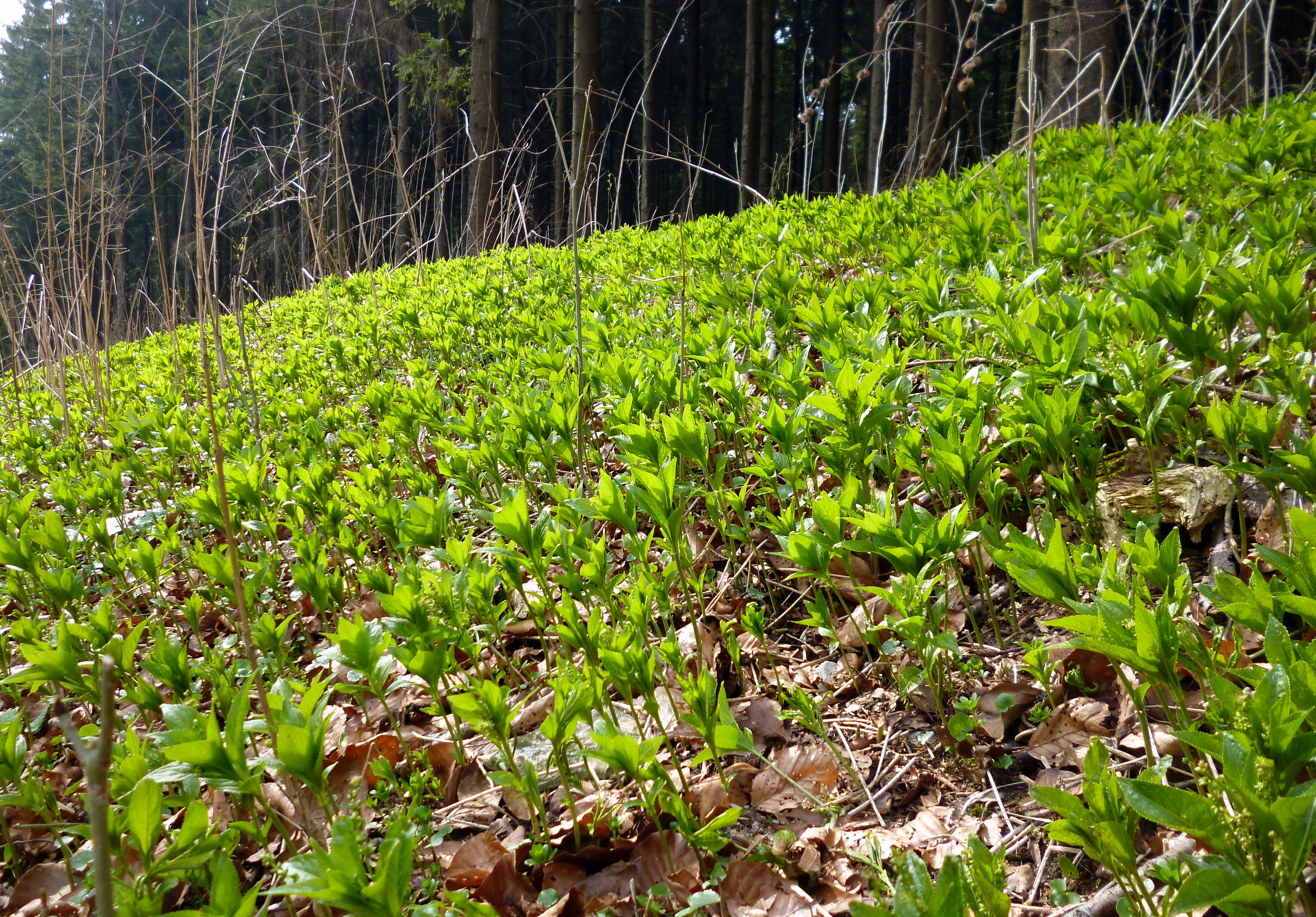 Forest floor overgrowned with Mercurialis perennis